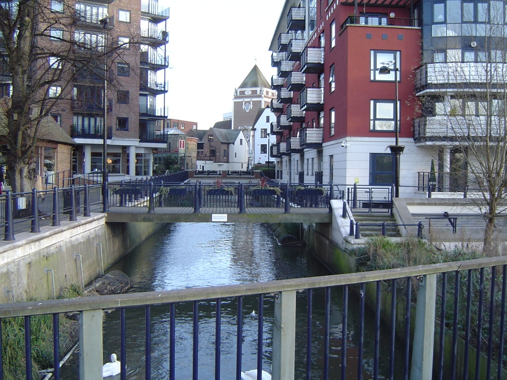 Hogsmill River as it joins the River Thames at Kingston